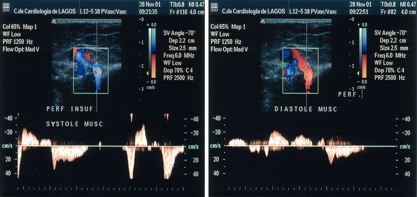 Paraná maneuver: Checking perforation veins in muscle systole ans diastole